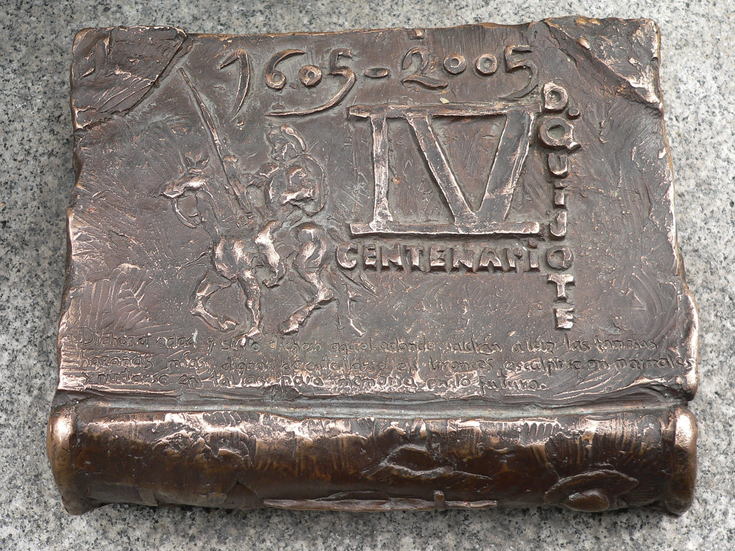 Description: Part of a monument to Don Quijote de la Mancha Subject: IV centenary of Don Quixote de la Mancha (1605-2005) Place : Calle Mayor City : Alcalá de Henares Country : Spain Photographer: © Manuel González Olaechea y Franco Shot date : October, 12th , 2005